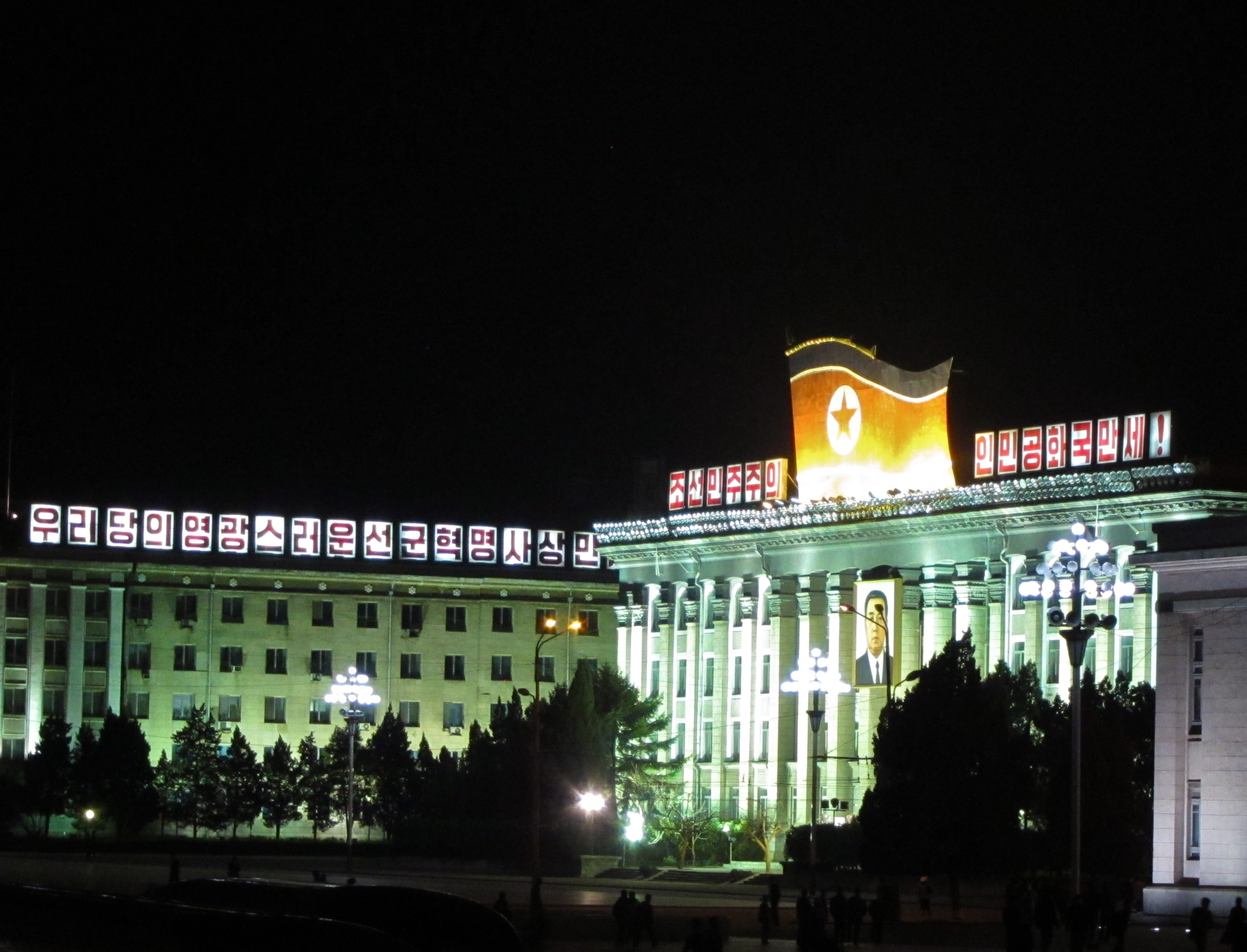 Lit up in celebration of May Day. Pyongyang, DPRK (North Korea)